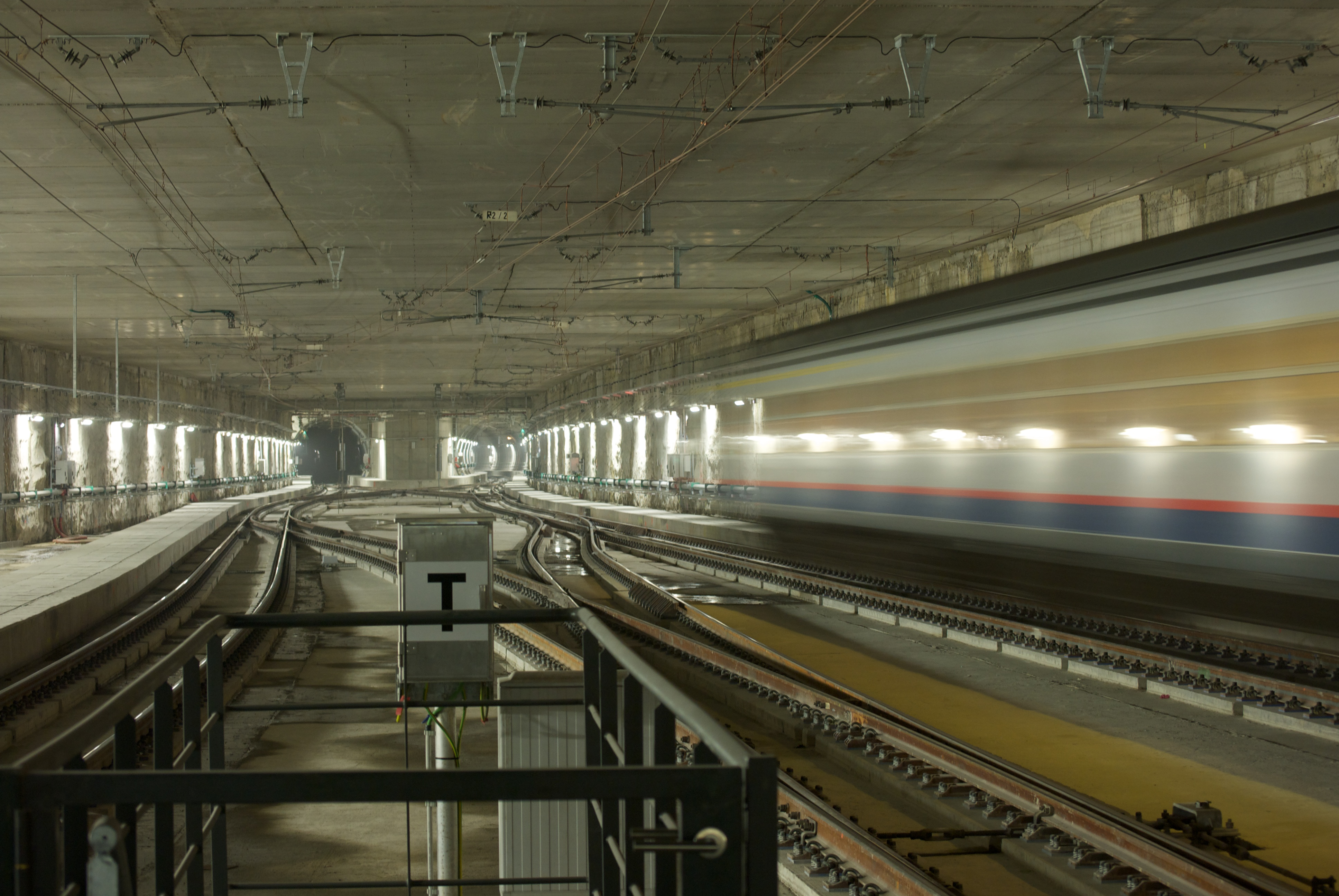 Railway tunnel under Brussels Airport, looking towards Mechelen, of the new Diabolo link. Seen from the end of the Brussels Airport railway station.